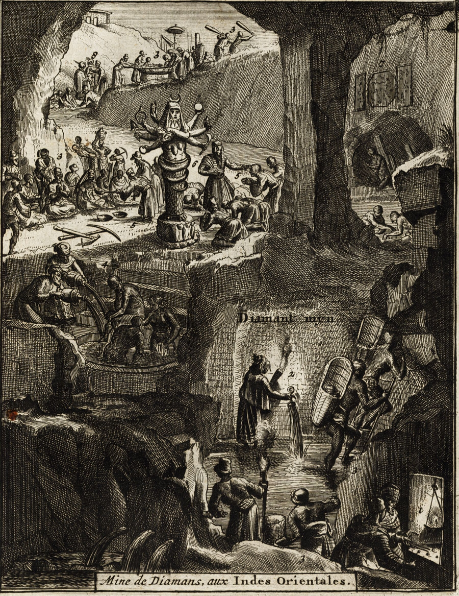 Life at the court of the King of Golconda, including the fabled diamond mines, from 'La galerie agreable du monde (etc.). Tome premier des Indes Orientales.', published by P. van der Aa, Leyden, Leyden, c. 1725.